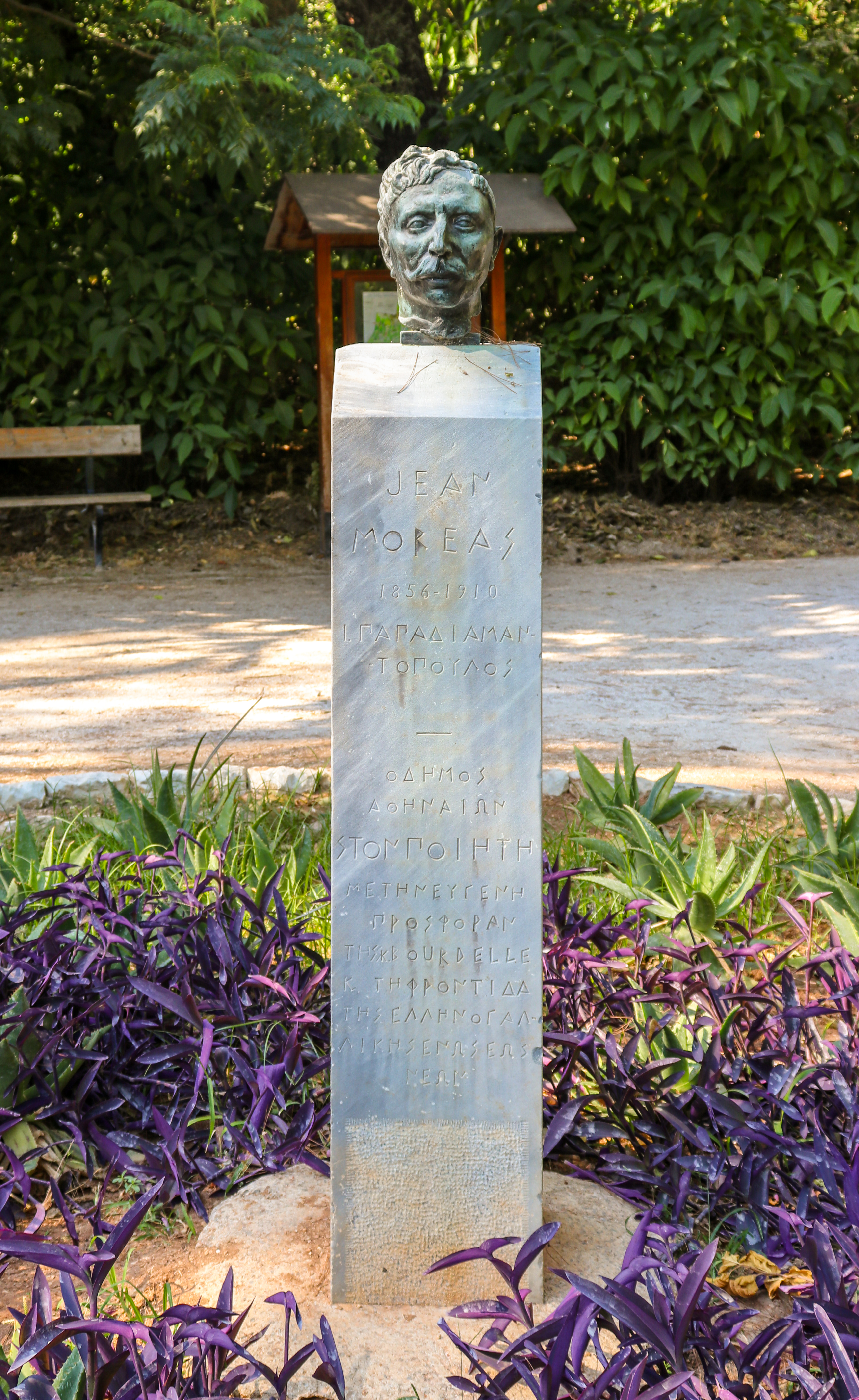 Jean Moreas Bust in National Garden in Athens